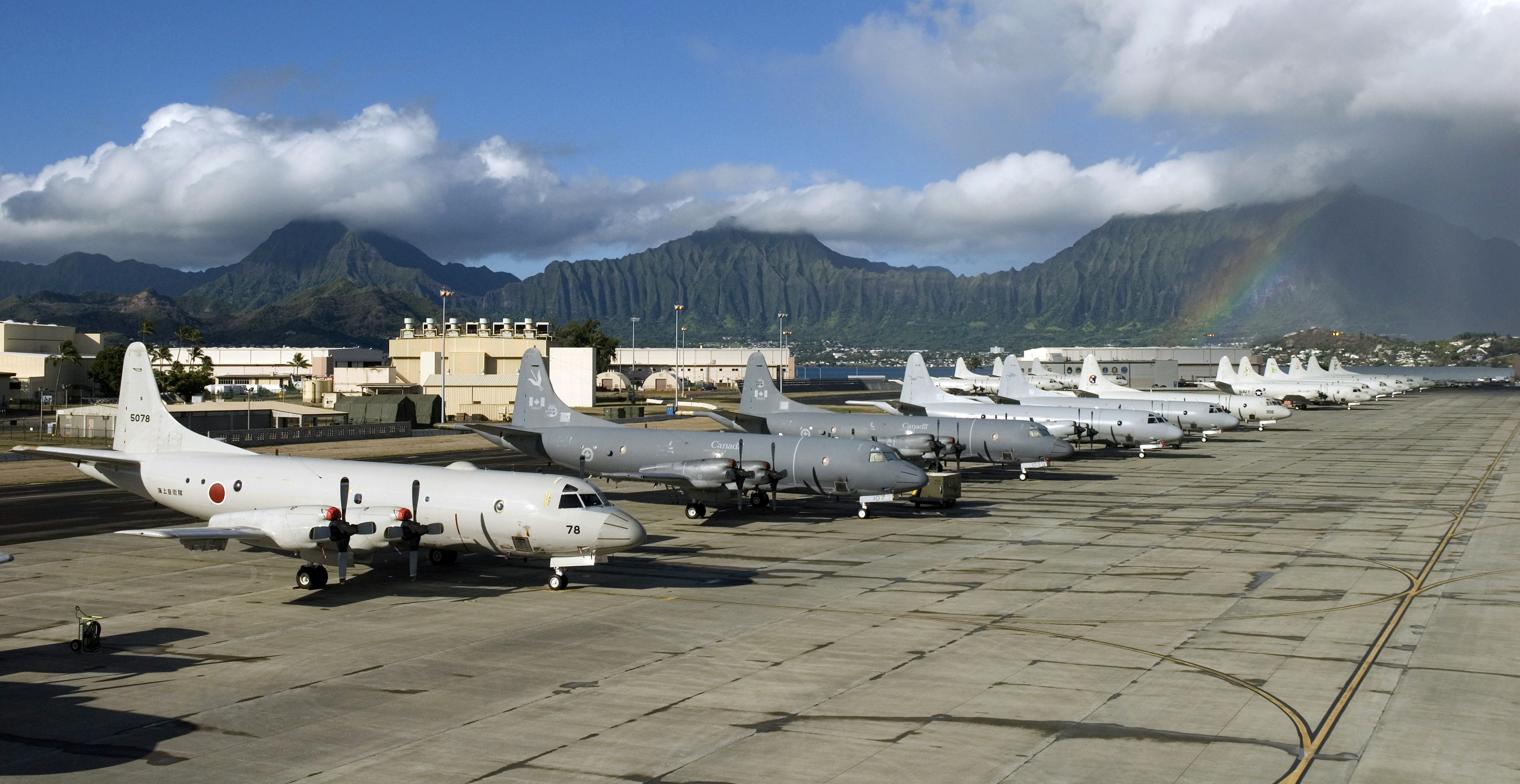 KANEOHE BAY, Hawaii (July 5, 2010) P-3C Orion aircraft from the navies of the Japan Maritime Self-Defense Force, Canada, Australia, Republic of Korean and the U.S. line the Rainbow Fleet tarmac of Marine Corps Air Station Kaneohe Bay during the Rim of the Pacific (RIMPAC) 2010 exercise. RIMPAC is a biennial, multinational exercise designed to strengthen regional partnerships and improve interoperability. (U.S. Navy photo by Mass Communication Specialist 2nd Class Meagan E. Klein/Released)